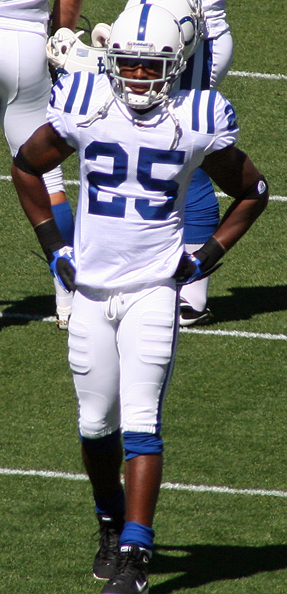 Jerraud Powers, a player on the Indianapolis Colts American football team.